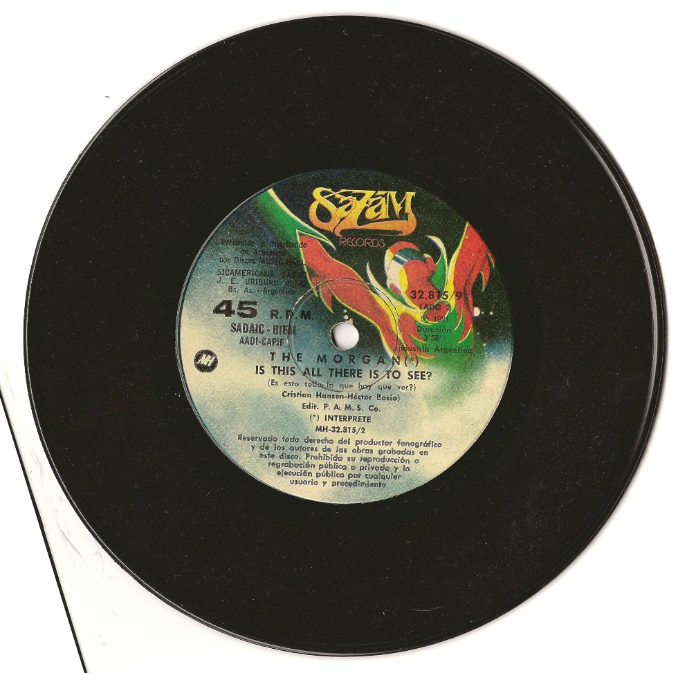 Disco simple del grupo "The Morgan" Lado 2